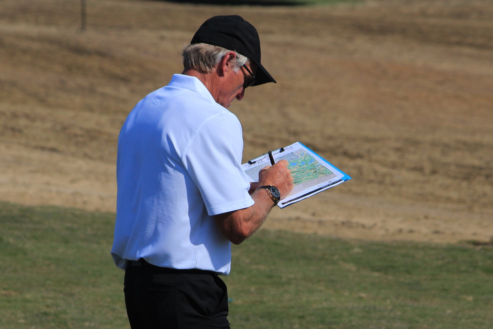 Norman designing The Eastern Golf Club in Yering, Australia